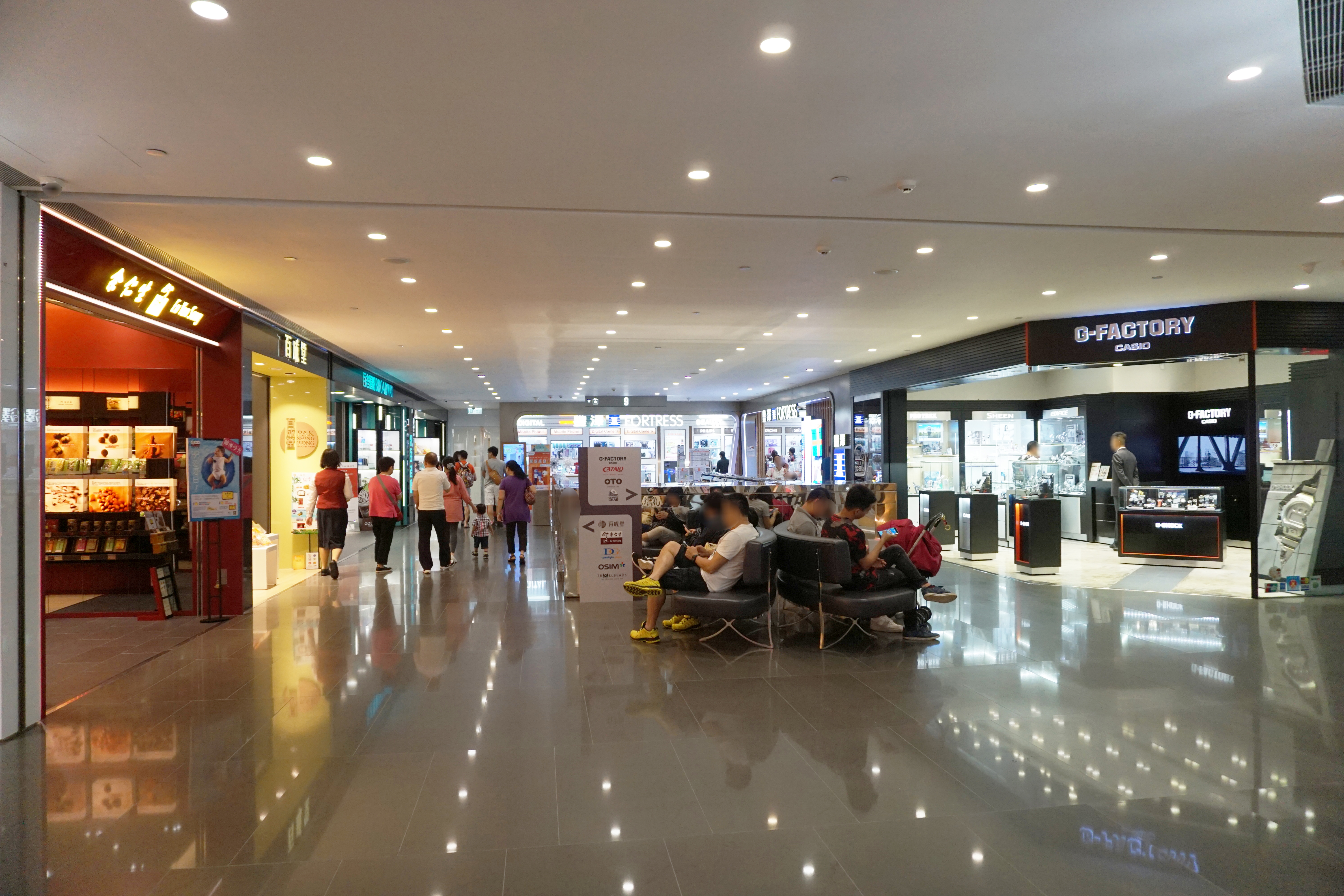 Times Square in Causeway Bay, Hong Kong.